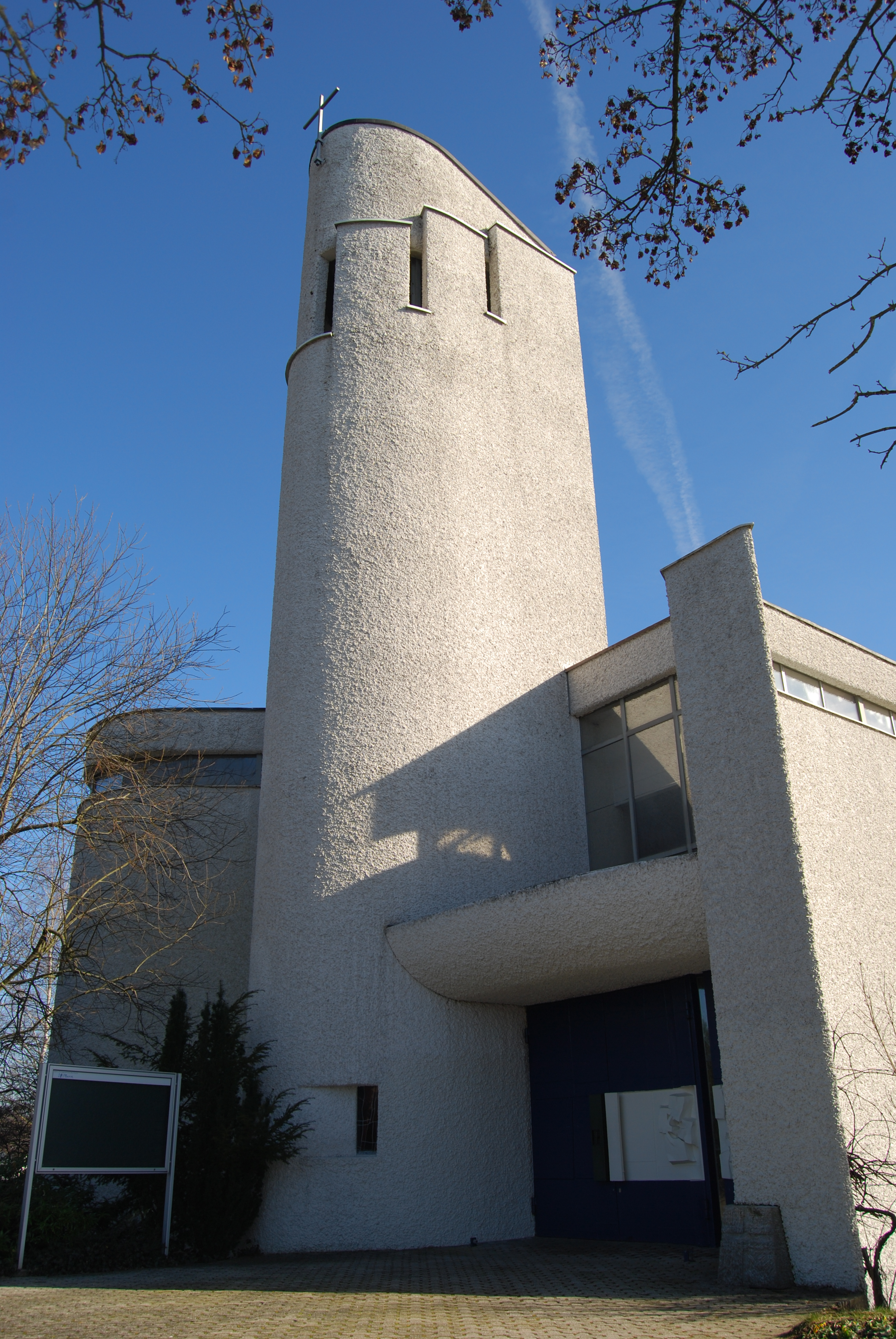 Catholic church of Müllheim, canton of Thurgovia, SwitzerlandEsperanto: Katolika preĝejo de Müllheim, Kantono Turgovio, Svislando